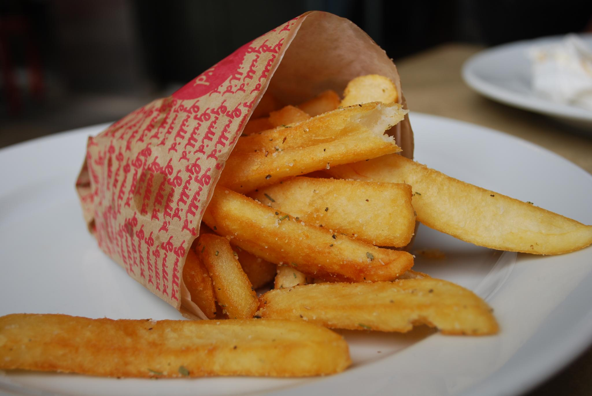 I had lunch, but I a friend called me up for lunch at the last minute. I had to oblige with some fries :P Grill'd QV Melbourne (03) 9663 0399 QV Square, Level 2 cnr Swanston & Lonsdale Sts Melbourne VIC 3000 Grill'd on Flickr